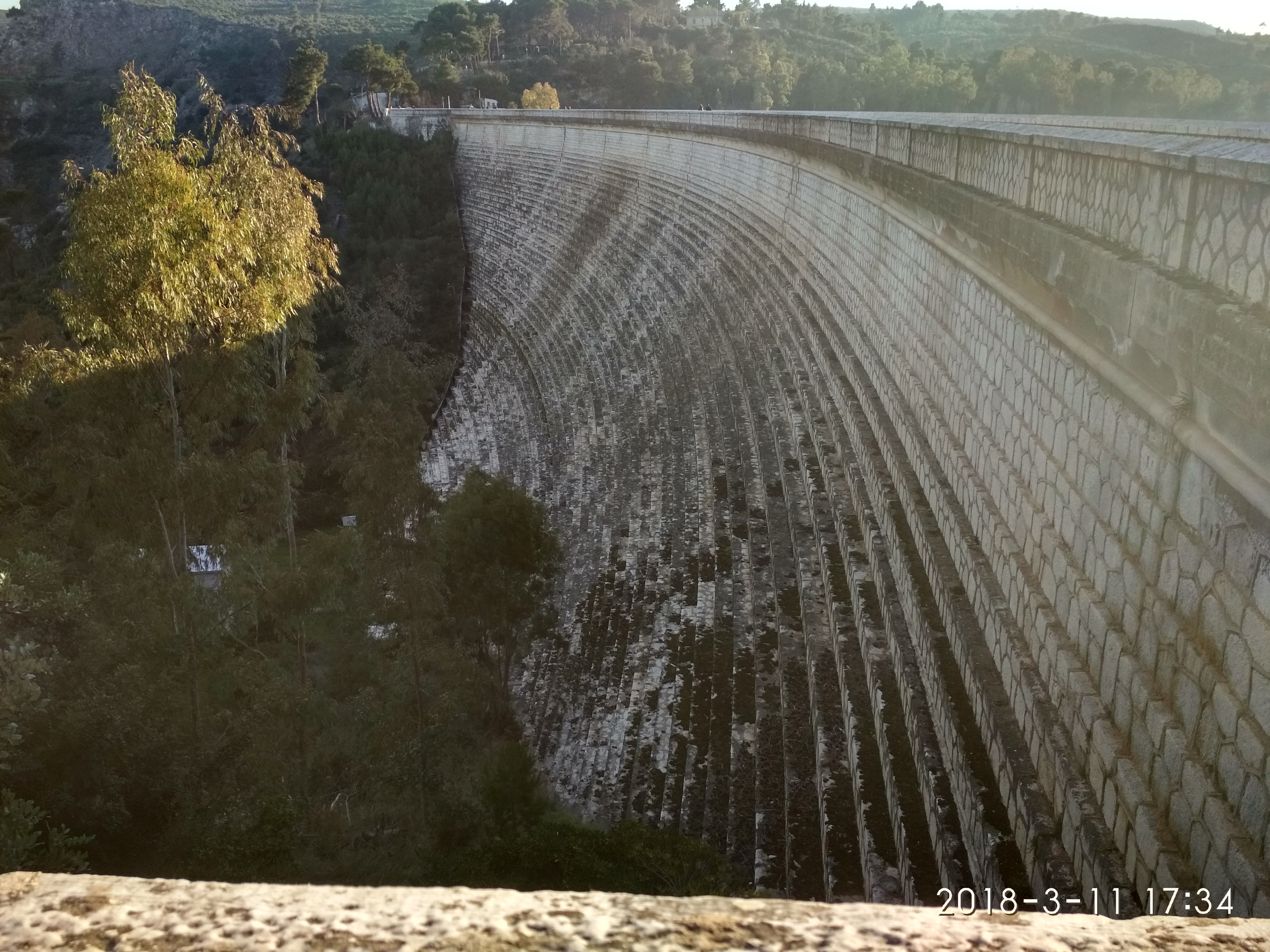 The barrier at the lake of Marathon